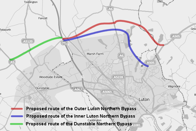 A map displaying the proposed Dunstable Northern Bypass, in green and the proposed inner route, in blue, and outer route, in red, of the Luton Northern Bypass. Overlaid on OpenStreetMap data.